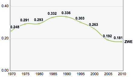 Zimbabwe, Trends in the Human Development Index 1970-2010